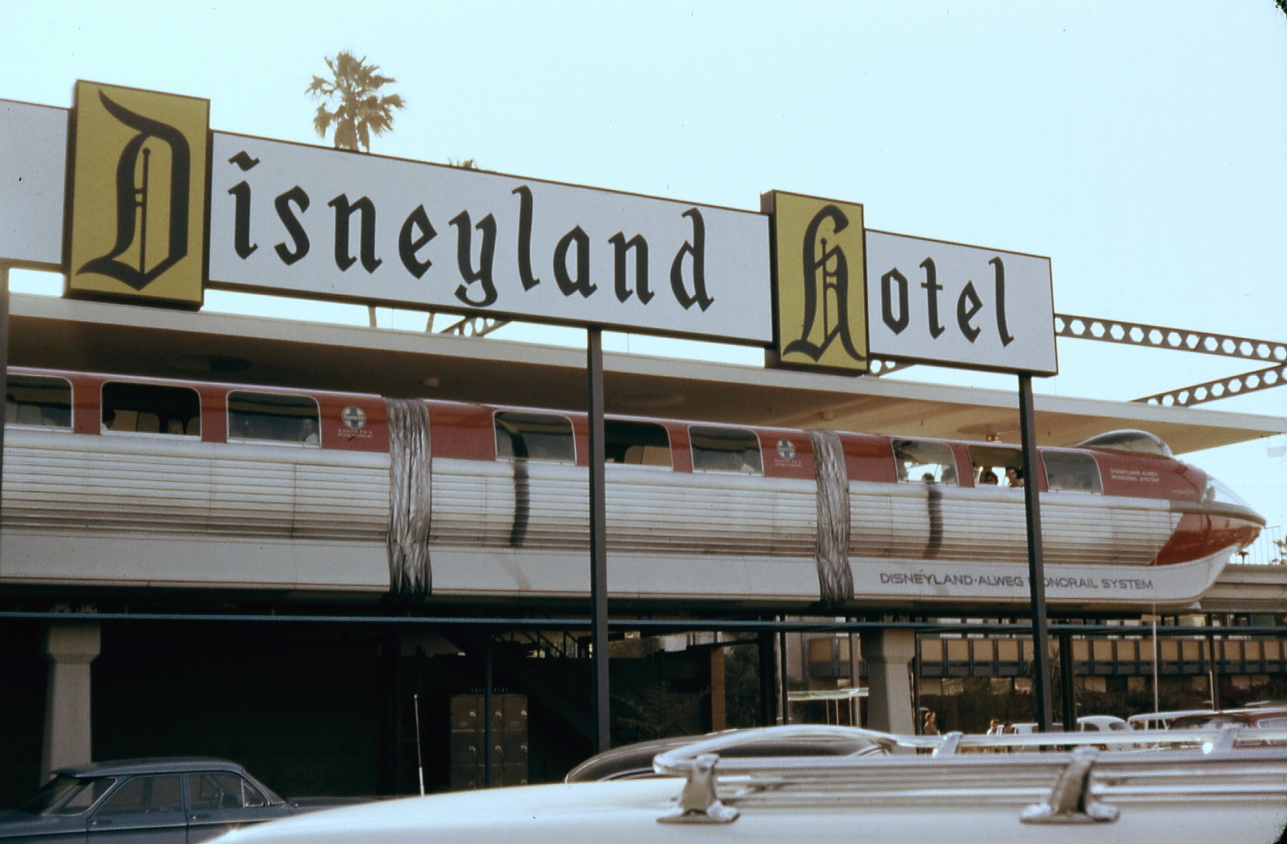 The Disneyland Monorail, stopped at Disneyland Hotel station, in 1963. The original Modernist style hotel complex with monorail station was designed by architect William Pereira.